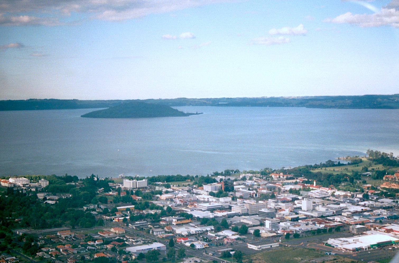 Aerial view of downtown Rotorua and Lake Rotorua, North Island, New Zealand. Lake Rotorua formed in the Rotorua Caldera, with Mokoia Island in the middle. Taken during a seaplane ride.